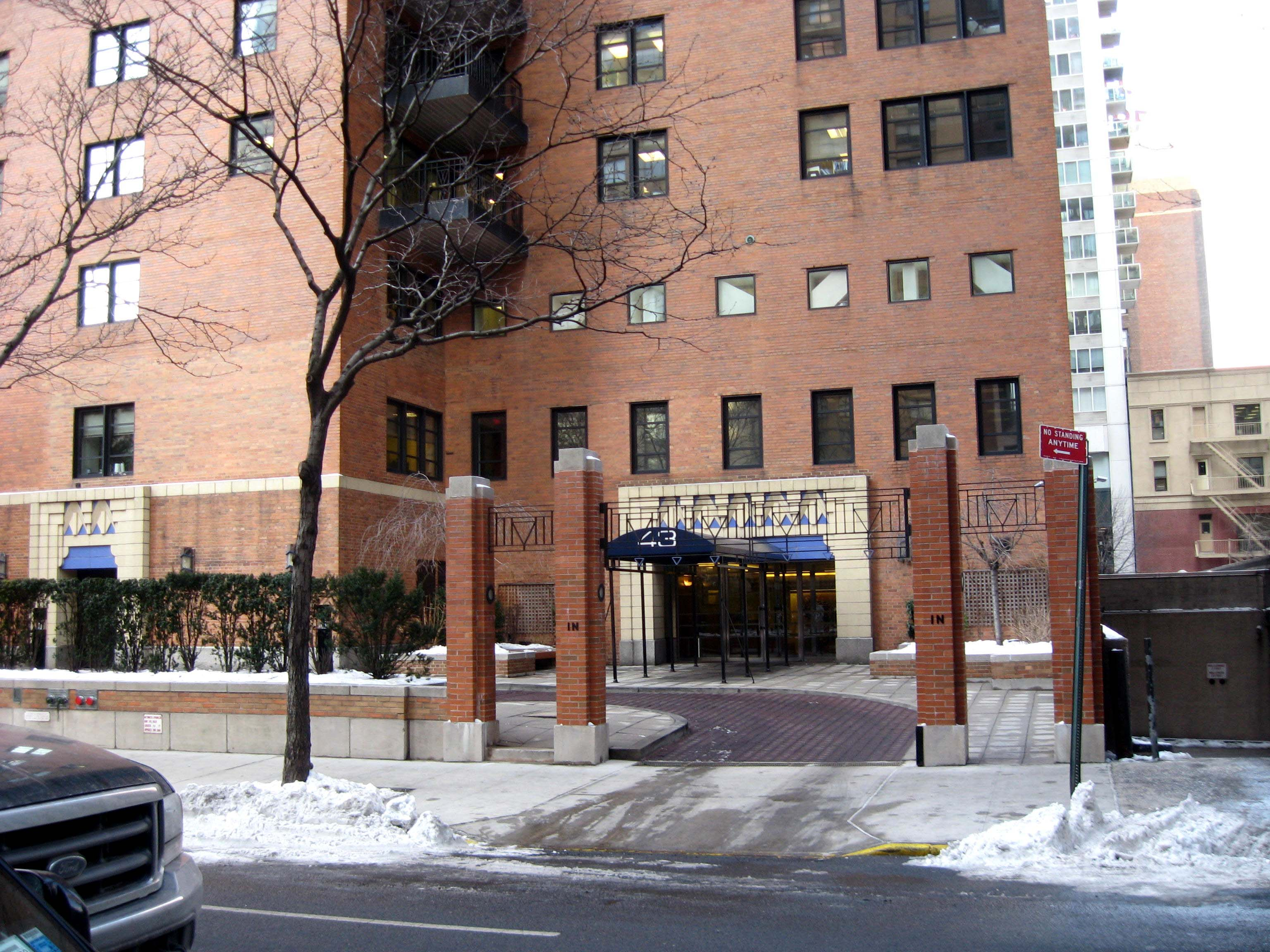 Looking north across the street at the former Kent Automatic Parking Garage, later Sophia Warehouse, now an apartment house, at 42 West 61st street on a mostly clear afternoon. NYCLPC designation 1983, map 13.